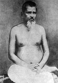 Panchanan Bhattacharya (Bengali: পঞ্চানন ভট্টাচার্য) (1853–1919) was a disciple of the Indian Yogi Lahiri Mahasaya. He helped to spread Lahiri Mahasaya's teachings in Bengal through his Arya Mission Institution.